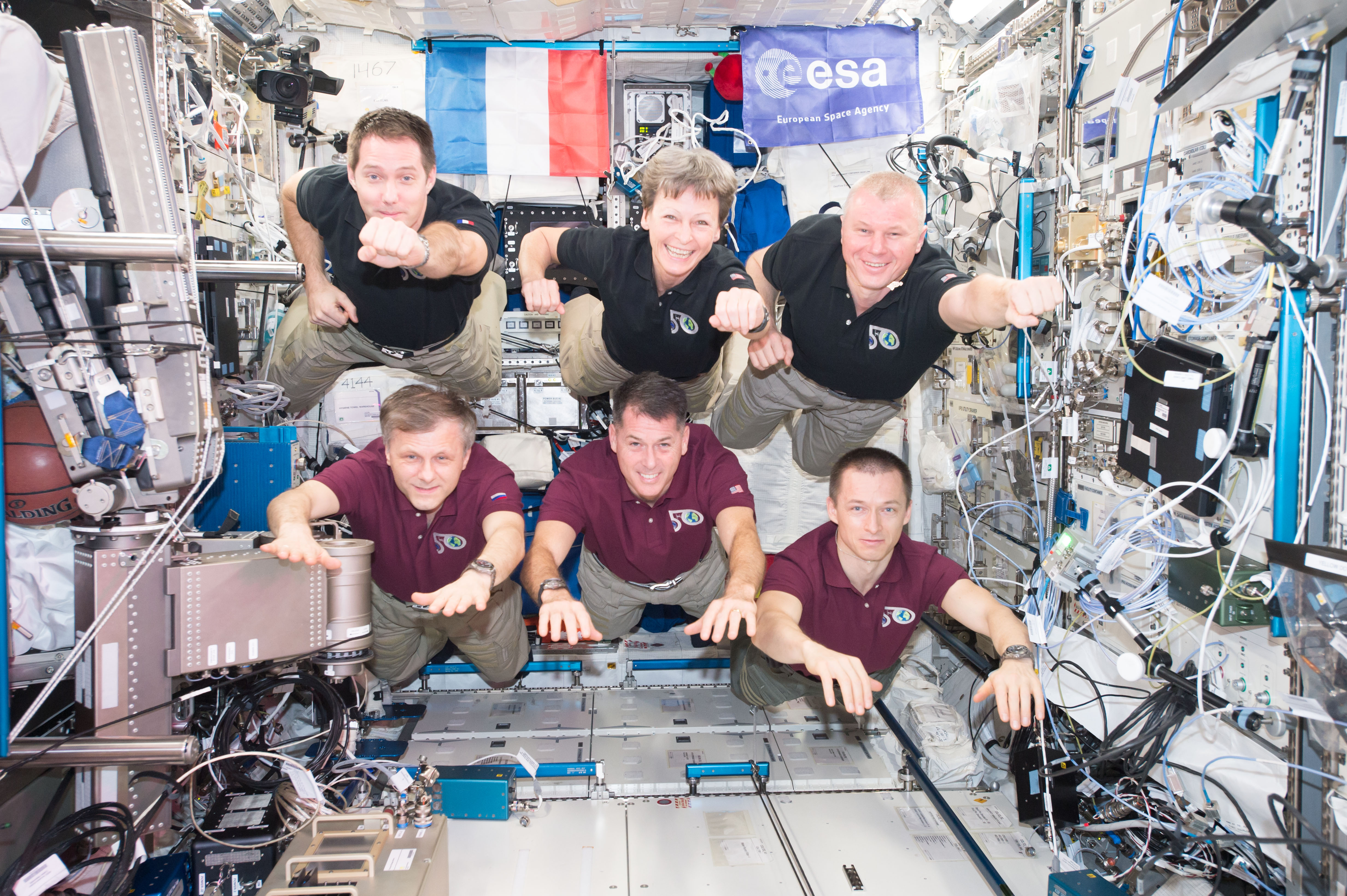 The Expedition 50 crew poses for a portrait aboard the International Space Station. In the front row (from left) are Soyuz MS-02 crewmates Andrey Borisenko, space station Commander Shane Kimbrough and Sergey Ryzhikov. In the back row are Soyuz MS-03 crewmates Thomas Pesquet, Peggy Whitson and Oleg Novitskiy.